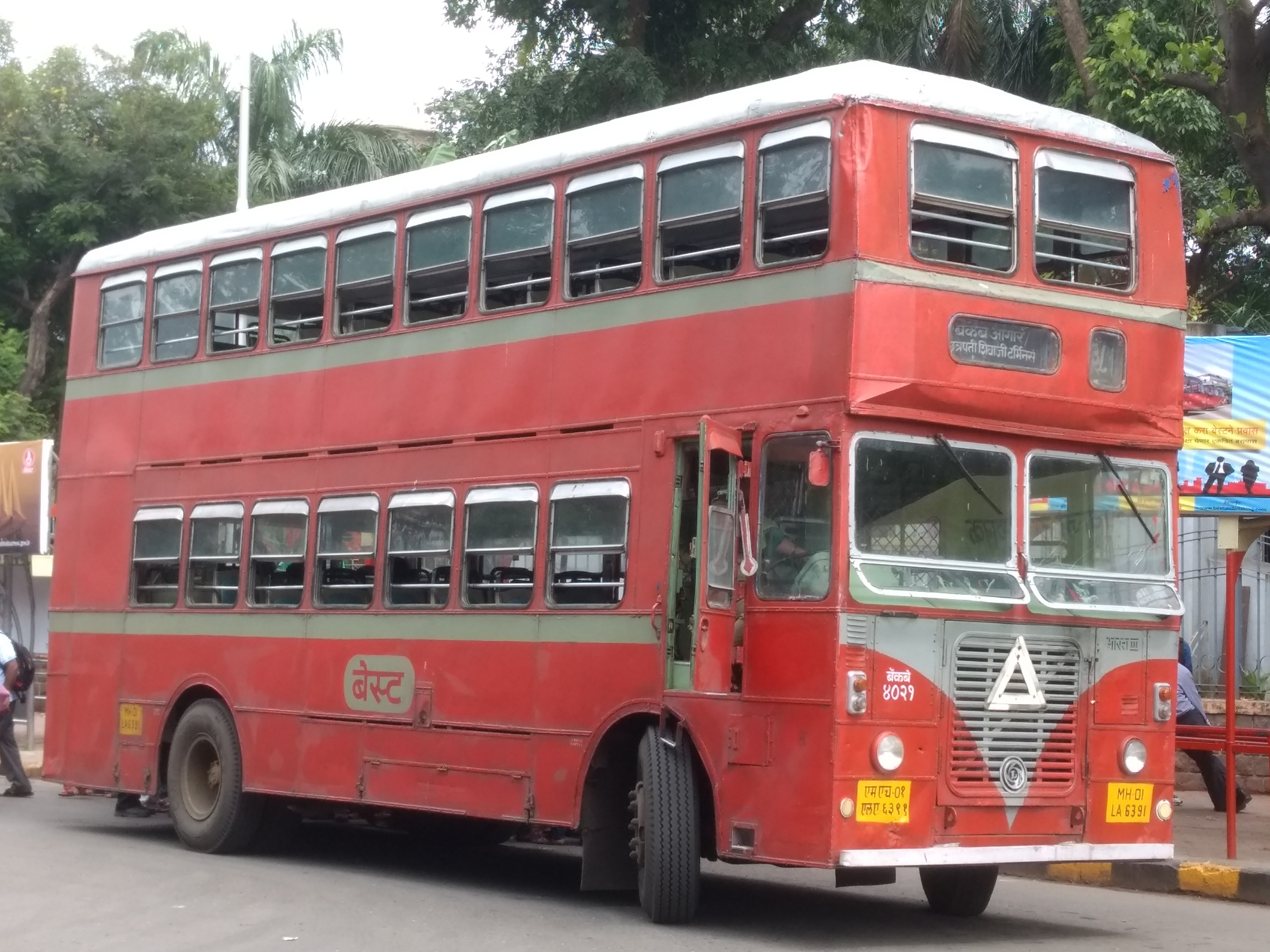 BEST double decker bus at Chatrapati Shivaji Terminus (CST) Bus station